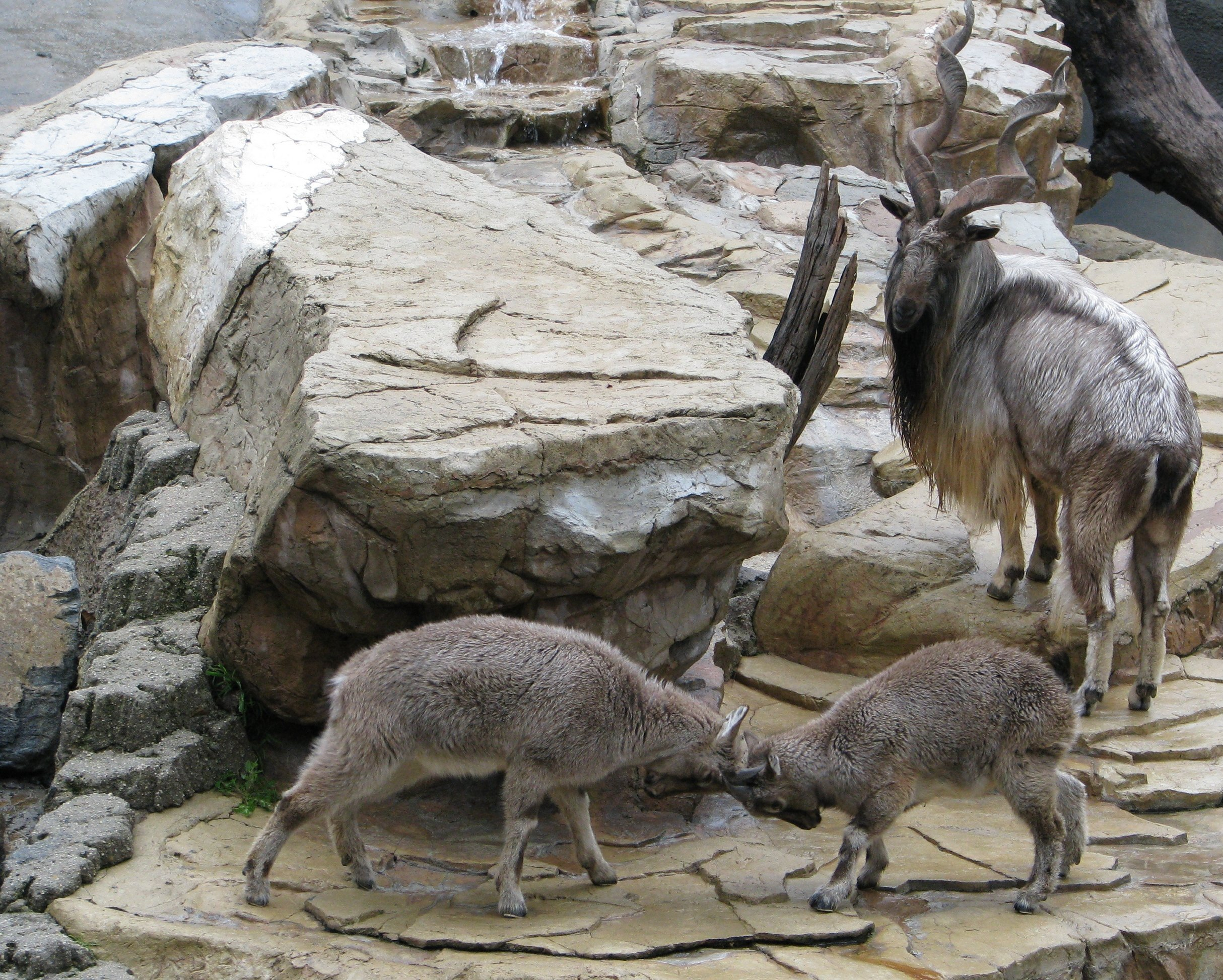 Markhors are highly endangered. It is likely that Pakistan's national animal will go extinct in the wild within the next fifty years.